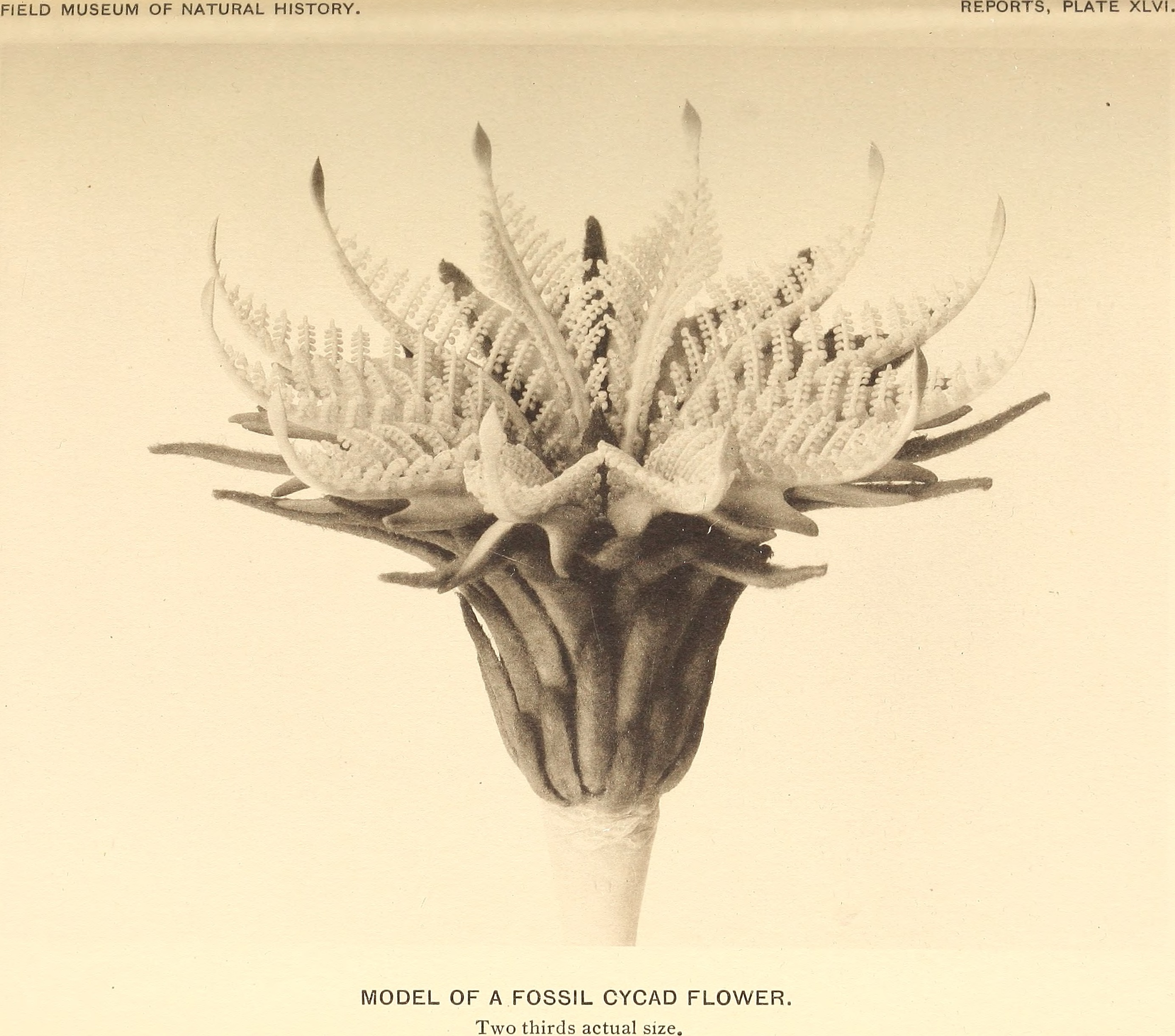 Model of a fossil cycad flower Title: Annual report of the Director to the Board of Trustees for the year .. Year: 1906 (1900s) Authors: Field Museum of Natural History Subjects: Field Museum of Natural History; Natural history Publisher: Chicago, U. S. A. : Field Museum of Natural History Text Appearing Before Image: ' Text Appearing After Image: '